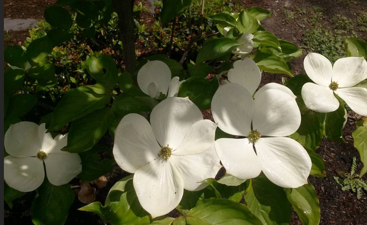 Cherokee Princess dogwood in bloom in Virginia